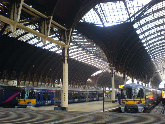 Paddington Station